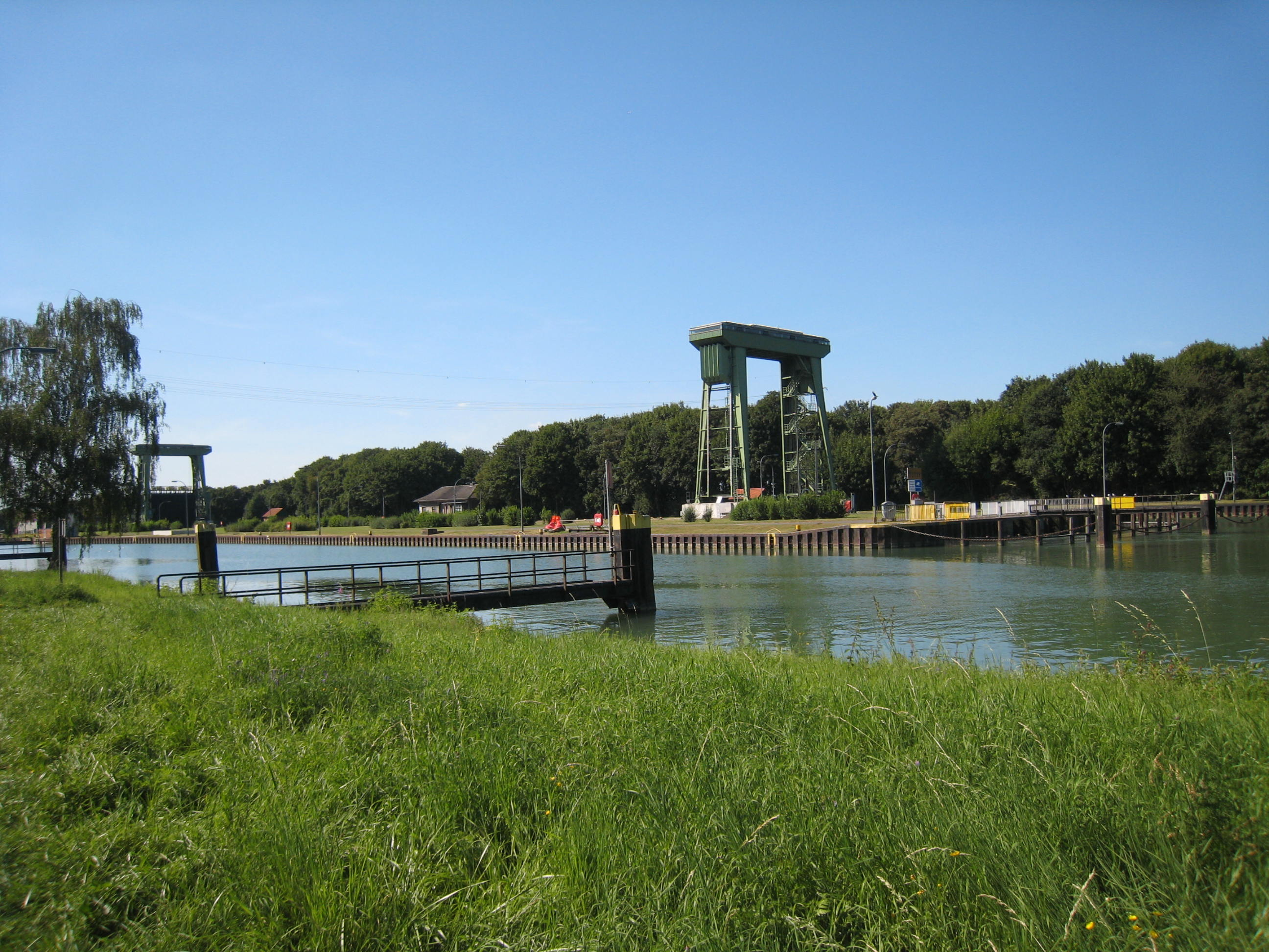 Hünxe sluice at the Wesel-Datteln-Kanal, Germany